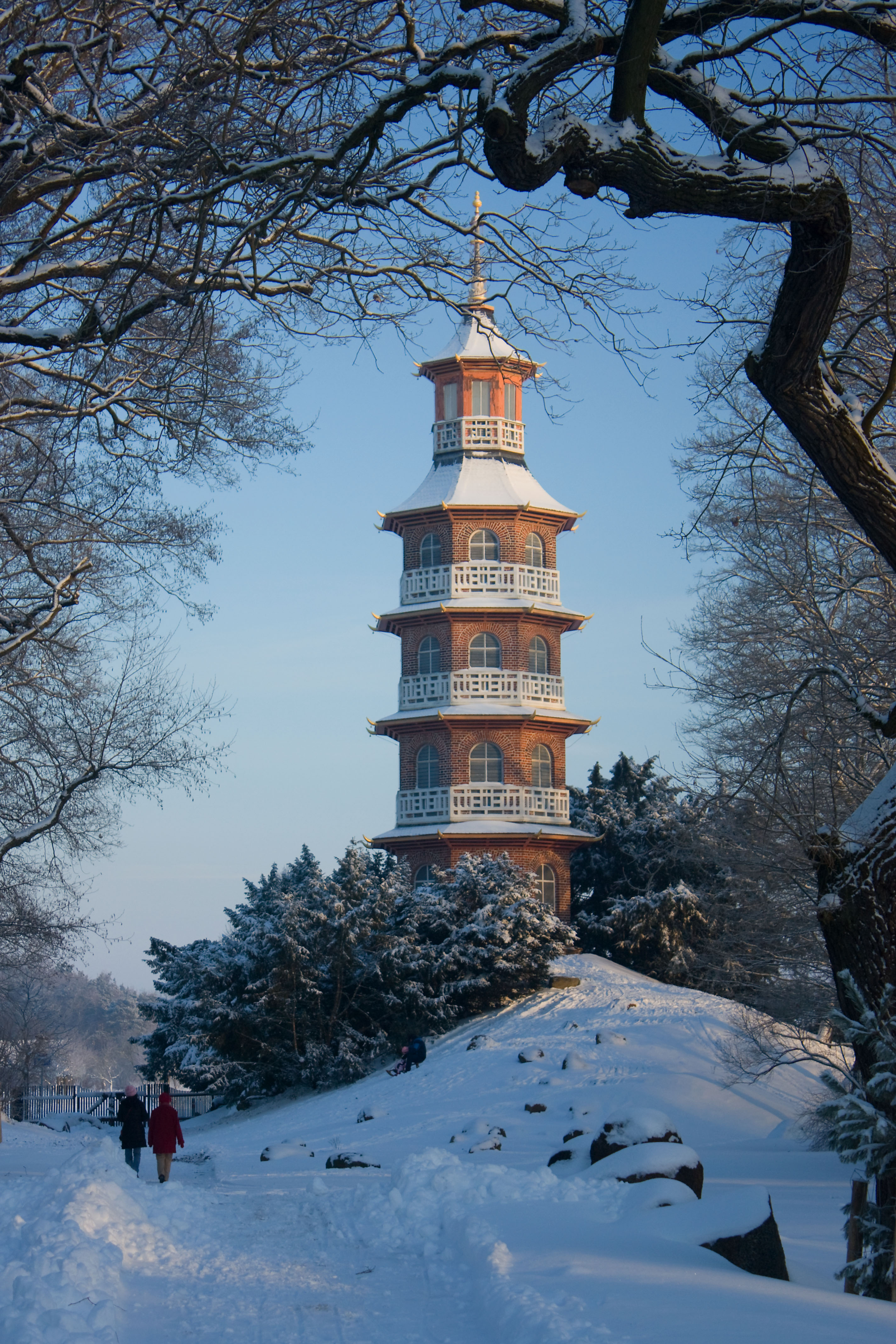 Pagoda in the castle park at Oranienbaum